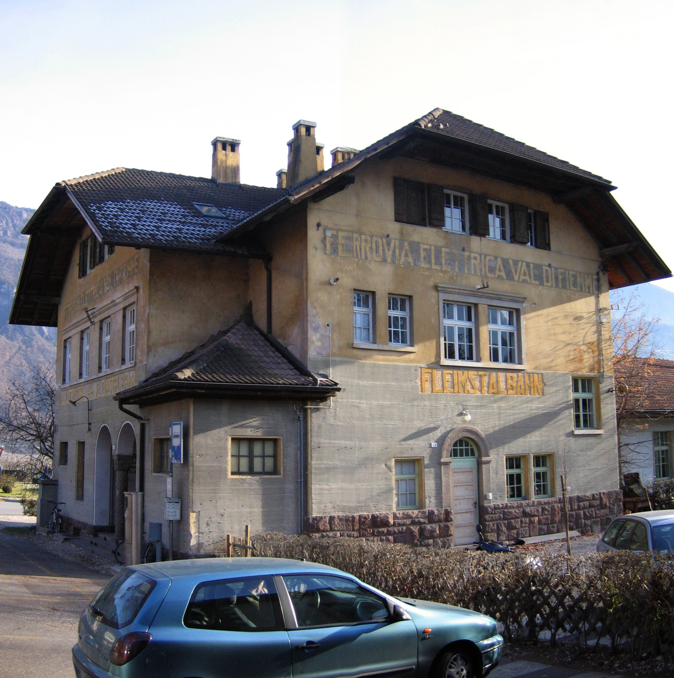 Ora Station of the ferrovia della Val di Fiemme